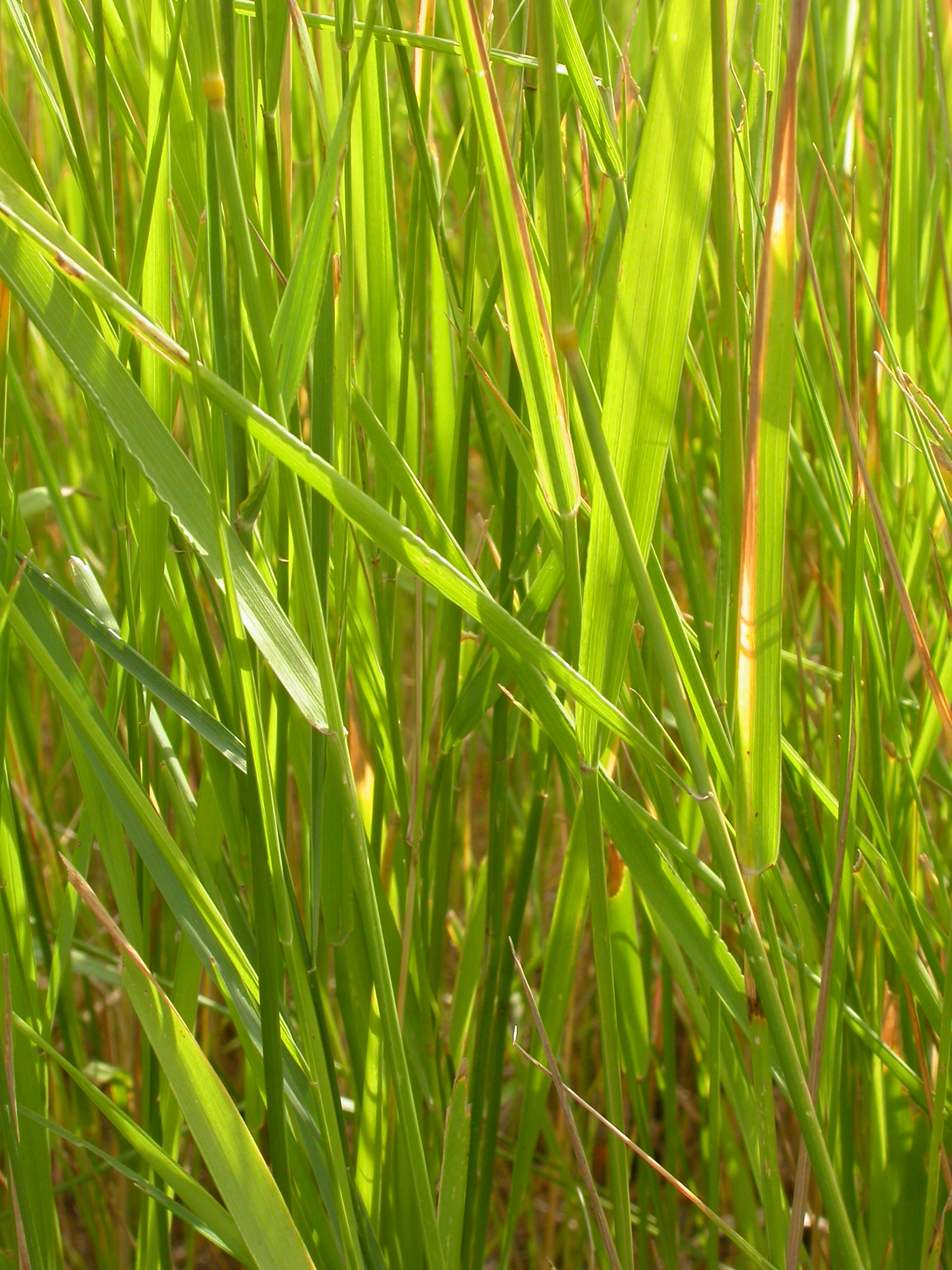 The leaves are generally broad (often 5-10 mm wide), green, and lax.